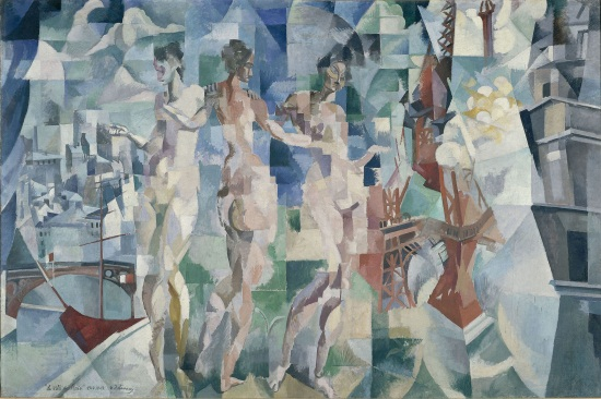 Robert Delaunay, La Ville de Paris, oil on canvas, 267 × 406 cm, Musée d'Art Moderne de la Ville de Paris.